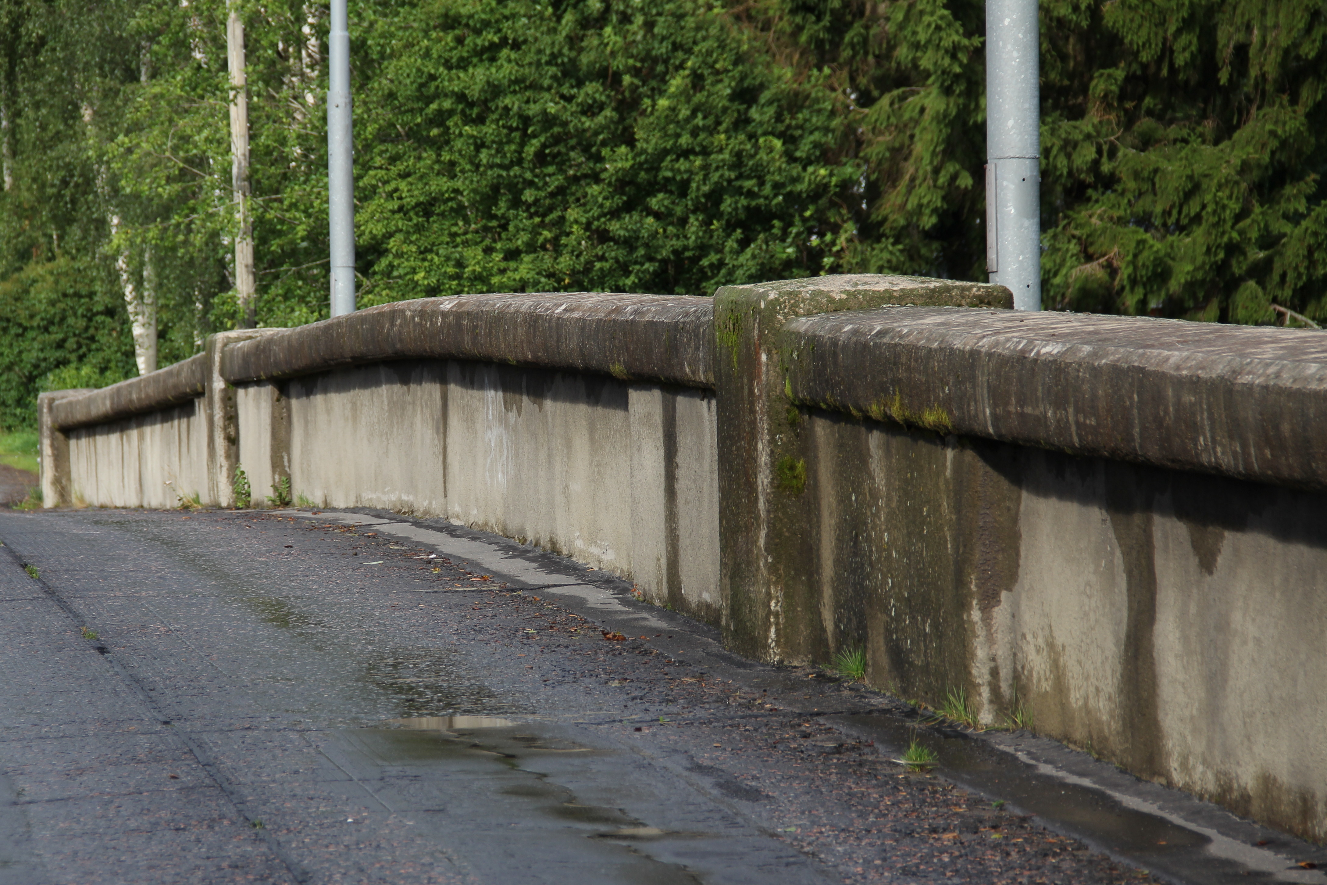 Mattila bridge, Voltti, Alahärmä, Kauhava, Finland. - Beam seen from southwest.